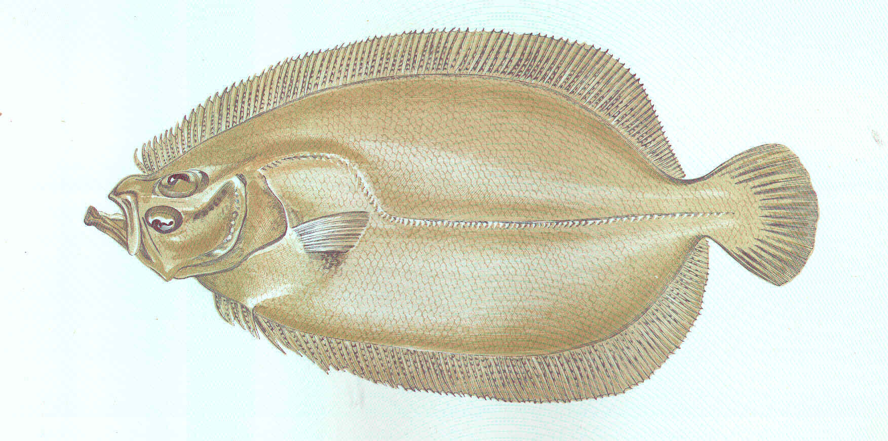 Sail Fluke Zeugopterus velivolans Subject: Zeugopterus Tag: Fish